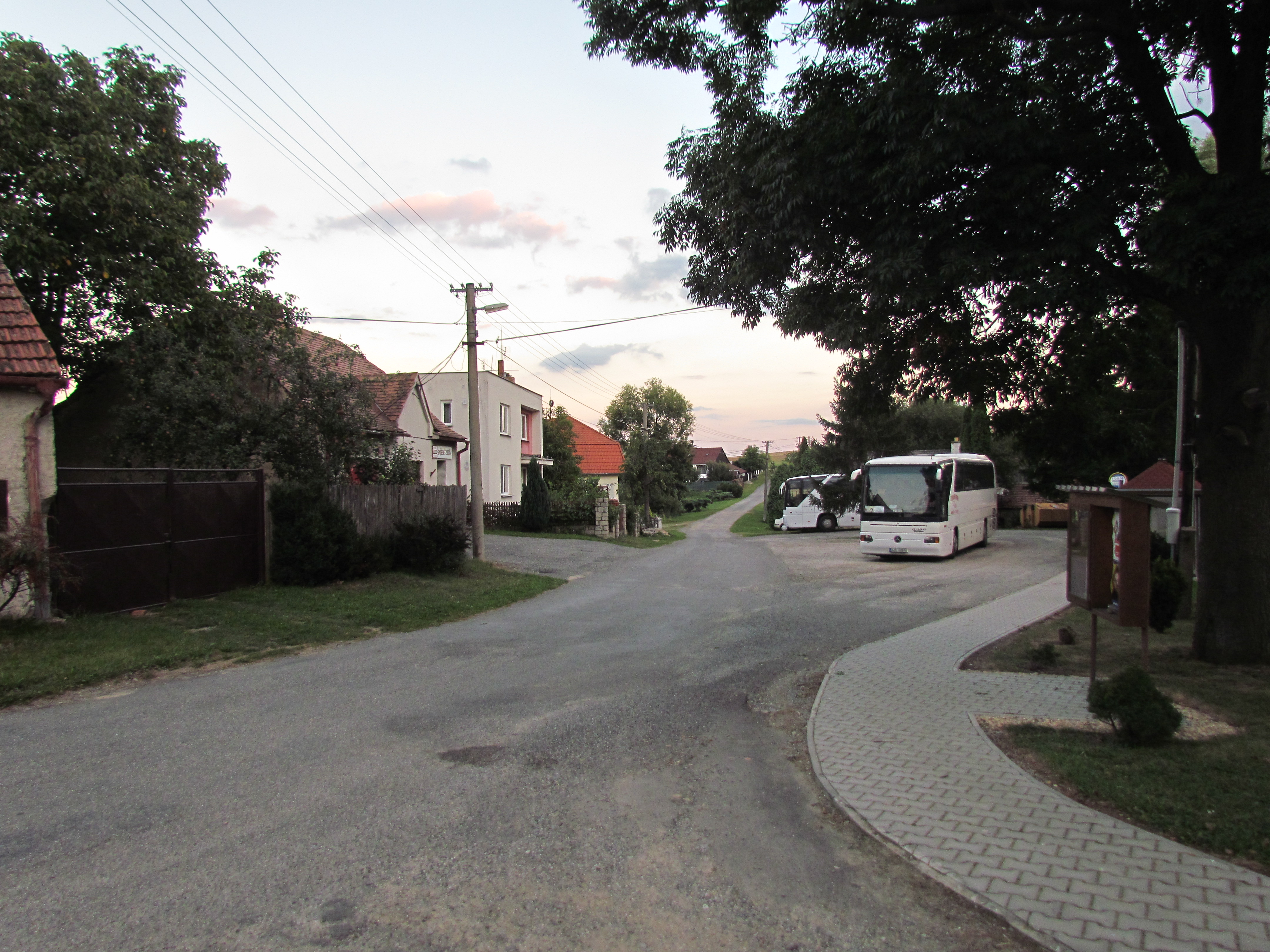 Center of Nimpšov in 2012, Třebíč District.